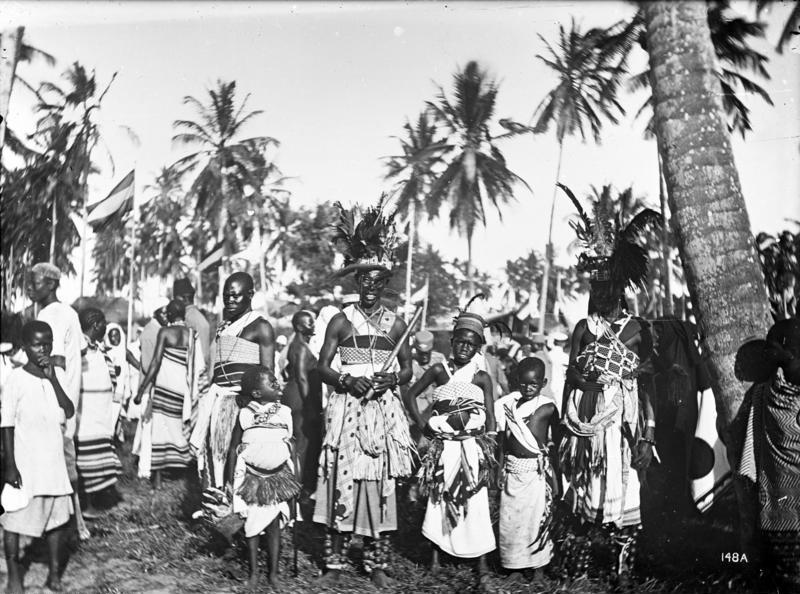 Zaramo people (German East Africa, now mainland Tanzania) wearing festive (? "native" might be better)clothes